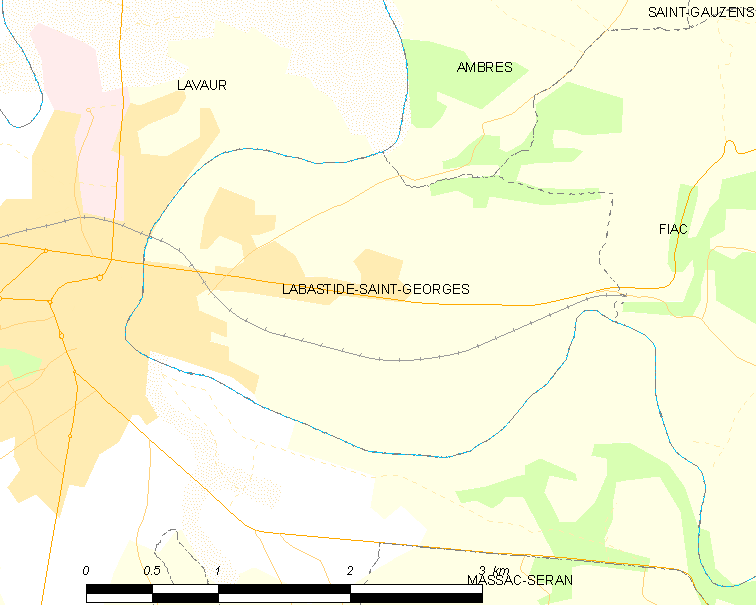 Map of French municipality Labastide-Saint-Georges